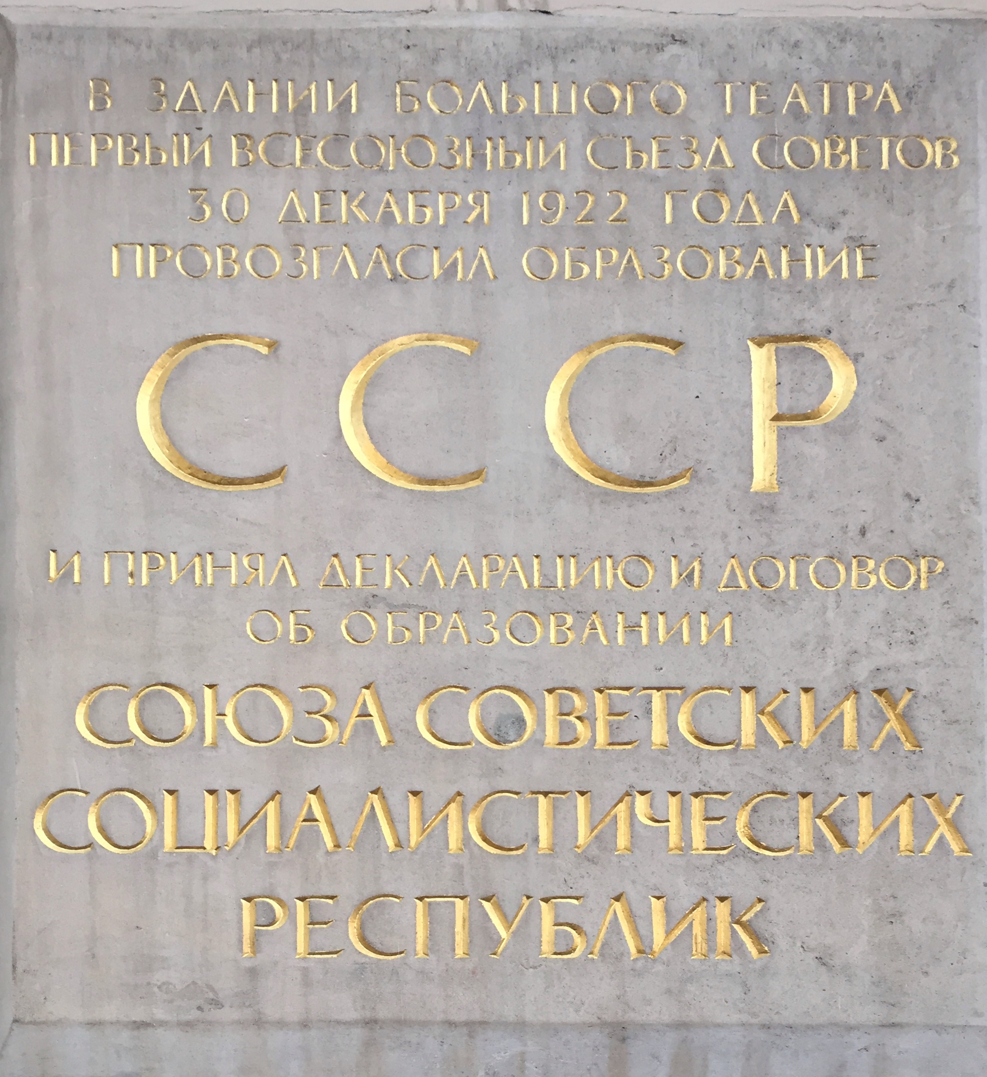 A commemorative plaque on the building of the Bolshoi Theater on the establishment of the Congress of Soviets and the proclamation of the USSR